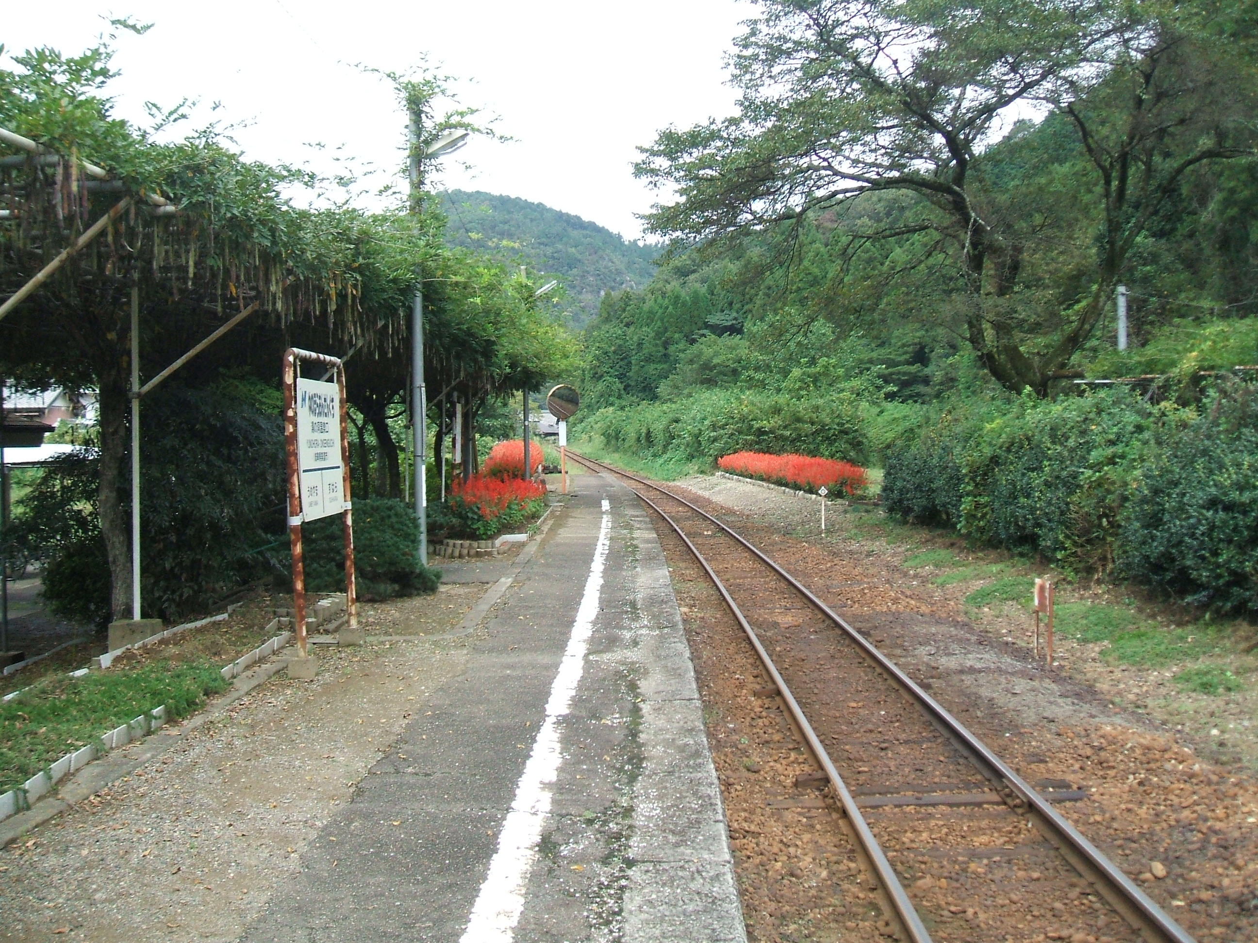 Yunohora-Onsen-guchi Station